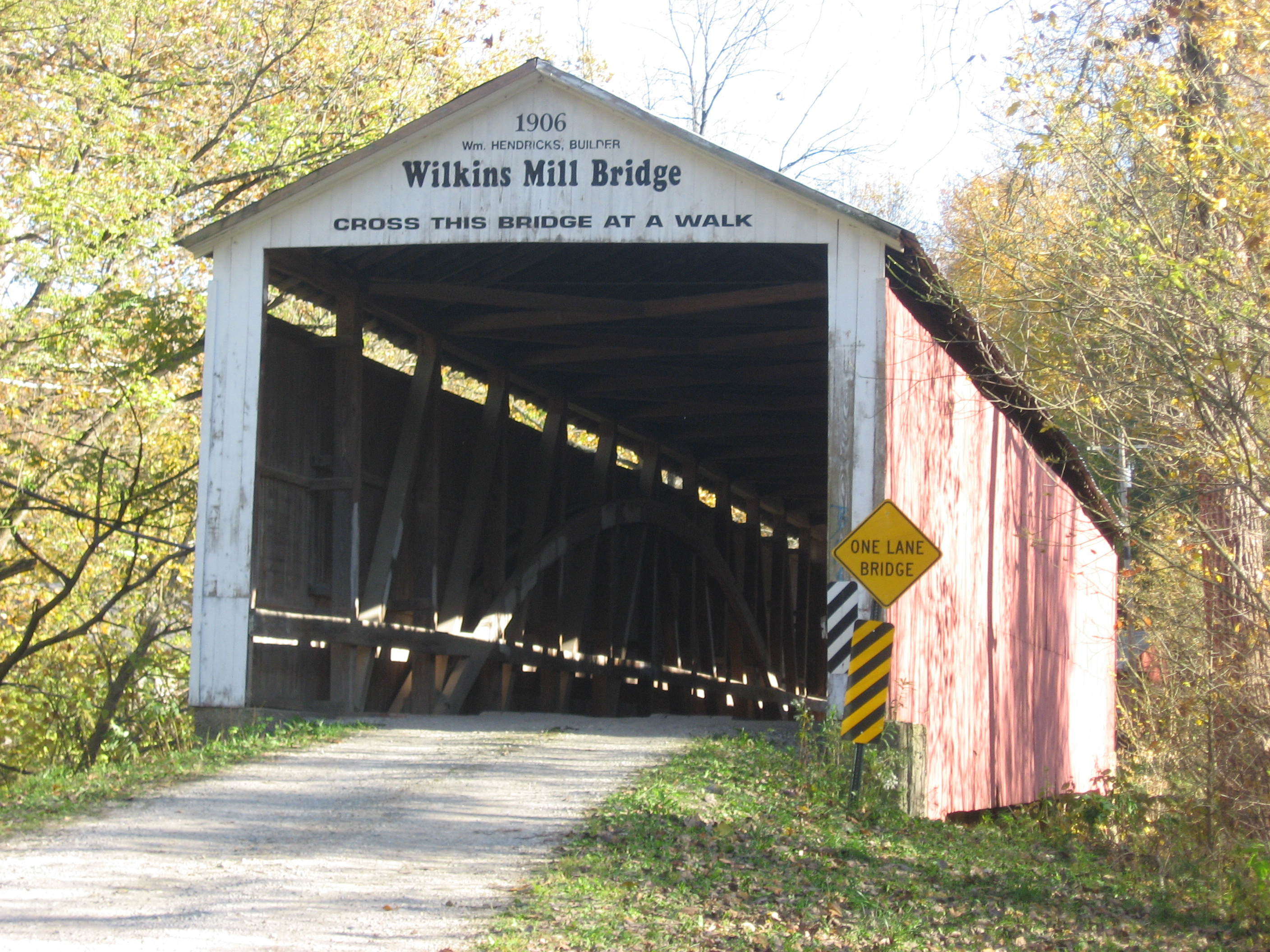 Northern portal and western side of the Wilkins Mill Covered Bridge, which carries Cox Ford Road over Sugar Mill Creek in Sugar Creek Township, Parke County, Indiana, United States. Built in 1906, it is listed on the National Register of Historic Places.